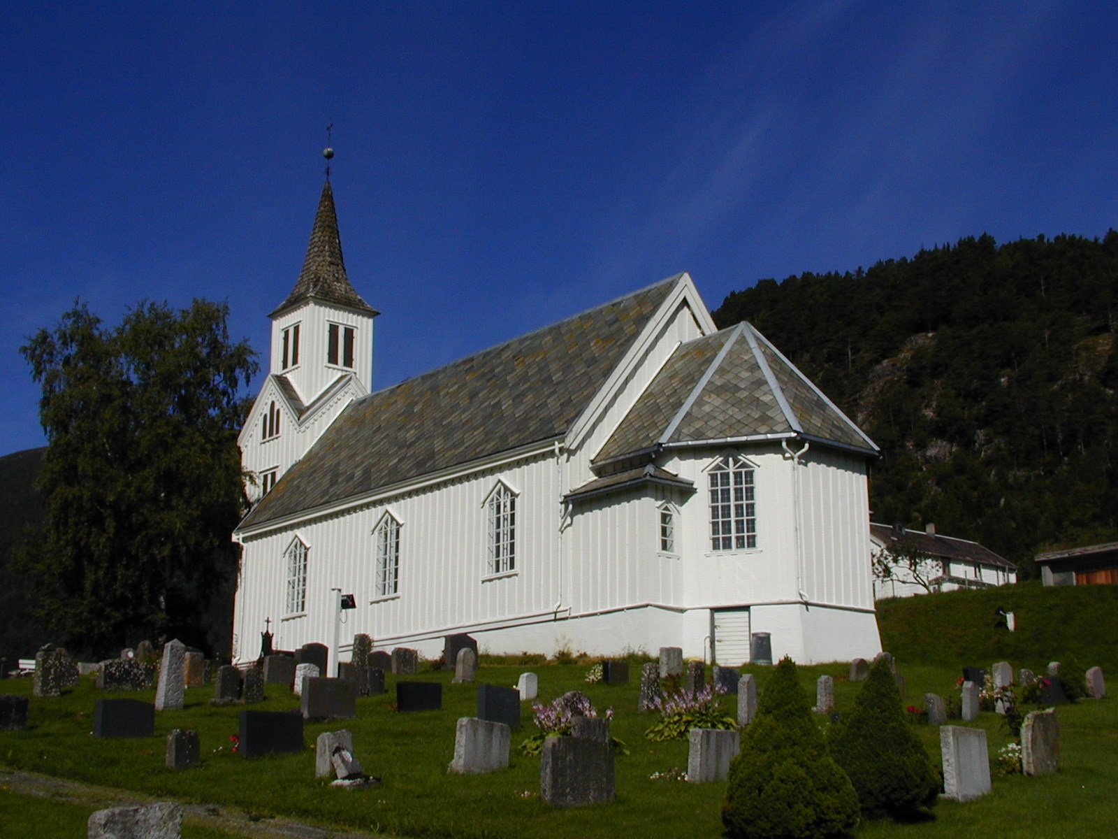 Eid kirke sett fra sørøst. Foto: Max Ingar Mørk. Fra Riksantikvarens Kulturminnebilder.